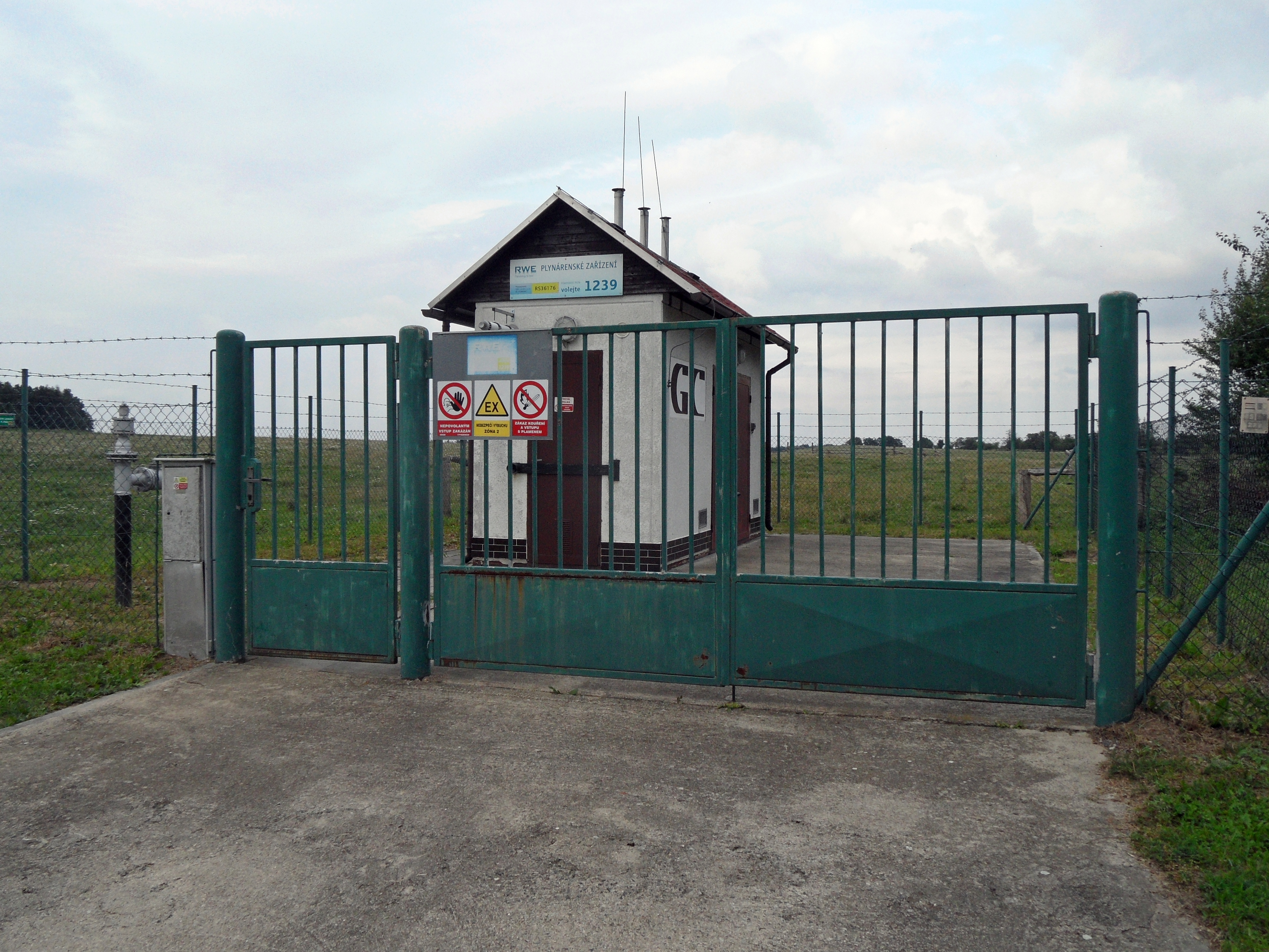 Dolní Červená Voda: Gas Station. Jeseník District, the Czech Republic.